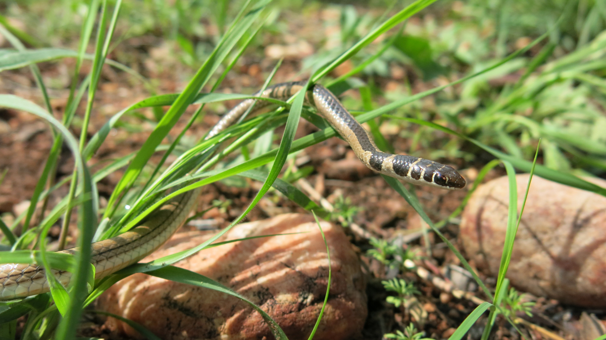 Pygmy Sand Snake, Psammophis angolensis, Masebe Nature Reserve, Limpopo